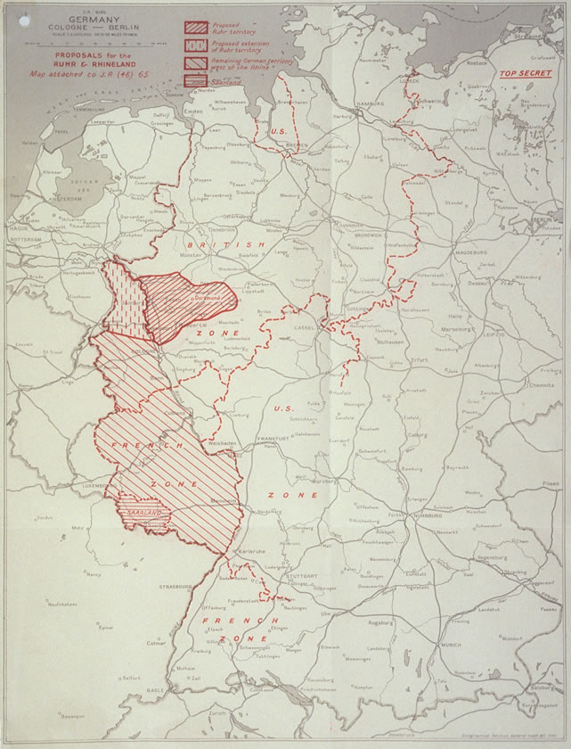 French Proposal for the Ruhr Area and the Rhineland.